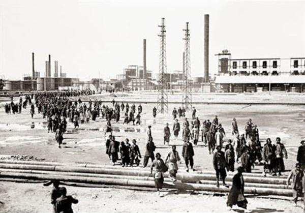 Workmans of Abadan Refinery at lunch time - 1913.